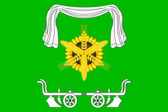 Flag of Kubanskoe rural settlement (Novopokrovsky rayon), Krasnodar Territory, Russia